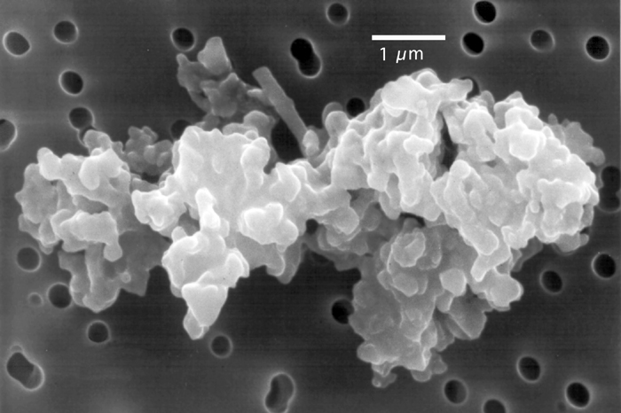 This is a scanning electron microscope image of an interplanetary dust particle that has roughly chondritic elemental composition and is highly rough (chondritic porous: "CP"). CP types are usually aggregates of large numbers of sub-micrometer grains, clustered in a random open order. The authors of this figure are Donald E. Brownlee, University of Washington, Seattle, and Elmar Jessberger, Institut für Planetologie, Münster, Germany. This file is licensed under Creative Commons Attribution 2.5 License: See the (Jessberger chapter in Grün, E., Gustafson, B.A.S., Dermott, S.F., Fechtig, H. (Eds.) Interplanetary Dust book for more details on this kind of dust particle. References E. K. Jessberger, T. Stephan, D. Rost, P. Arndt, M. Maetz, F. J. Stadermann, D. E. Brownlee, J. P. Bradley, G. Kurat (2001). Properties of Interplanetary Dust: Information from Collected Samples, in Grün, E., Gustafson, B.A.S., Dermott, S.F., Fechtig, H. (Eds.) Interplanetary Dust, pp. 253–294, Springer-Verlag.